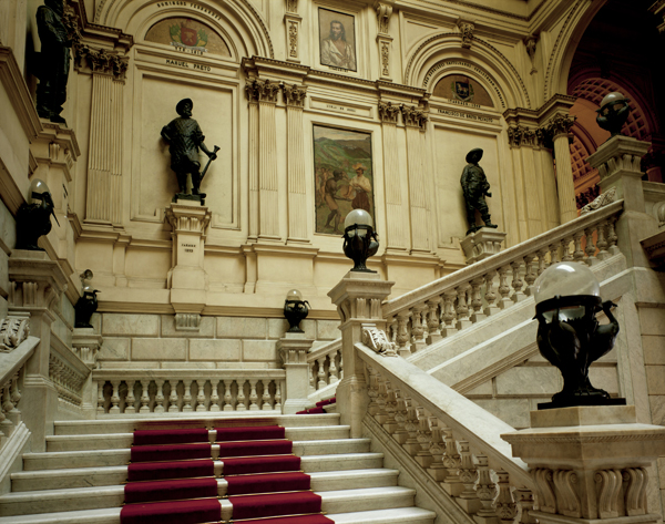 Ref.: PMa_BR_121_Sao_Paulo; Museo Paulista; São Paulo; Brazil; Cultural heritage|eclecticism; South America; South America|Brazil|São Paulo; photo: Paul M.R.Maeyaert; © Paul M.R. Maeyaert